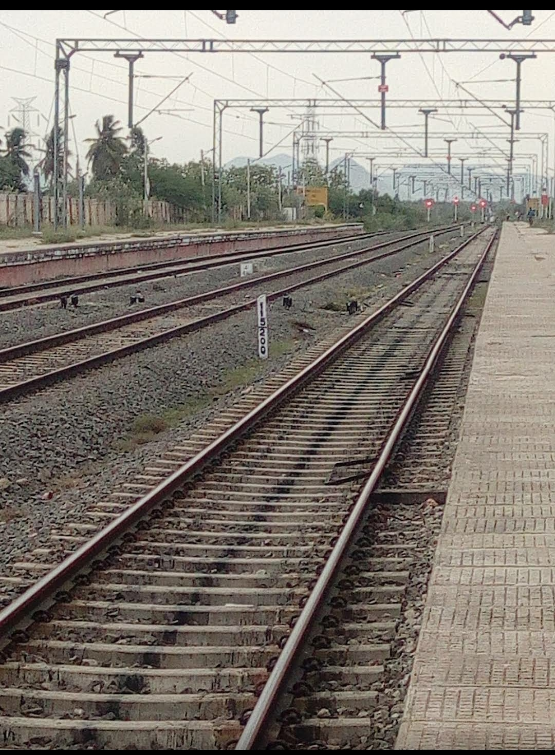 ஆரணி கோட்டை